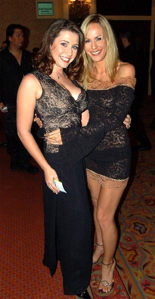 Erica Campbell and Crystal Klein